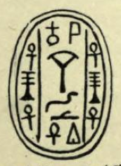 Scarab of a king Wazad, 14th dynasty, second intermediate period, 1897 drawing by Flinders Petrie.